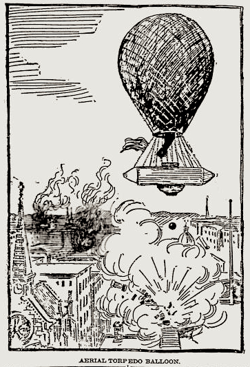 Aerial torpedo balloon (illustration)